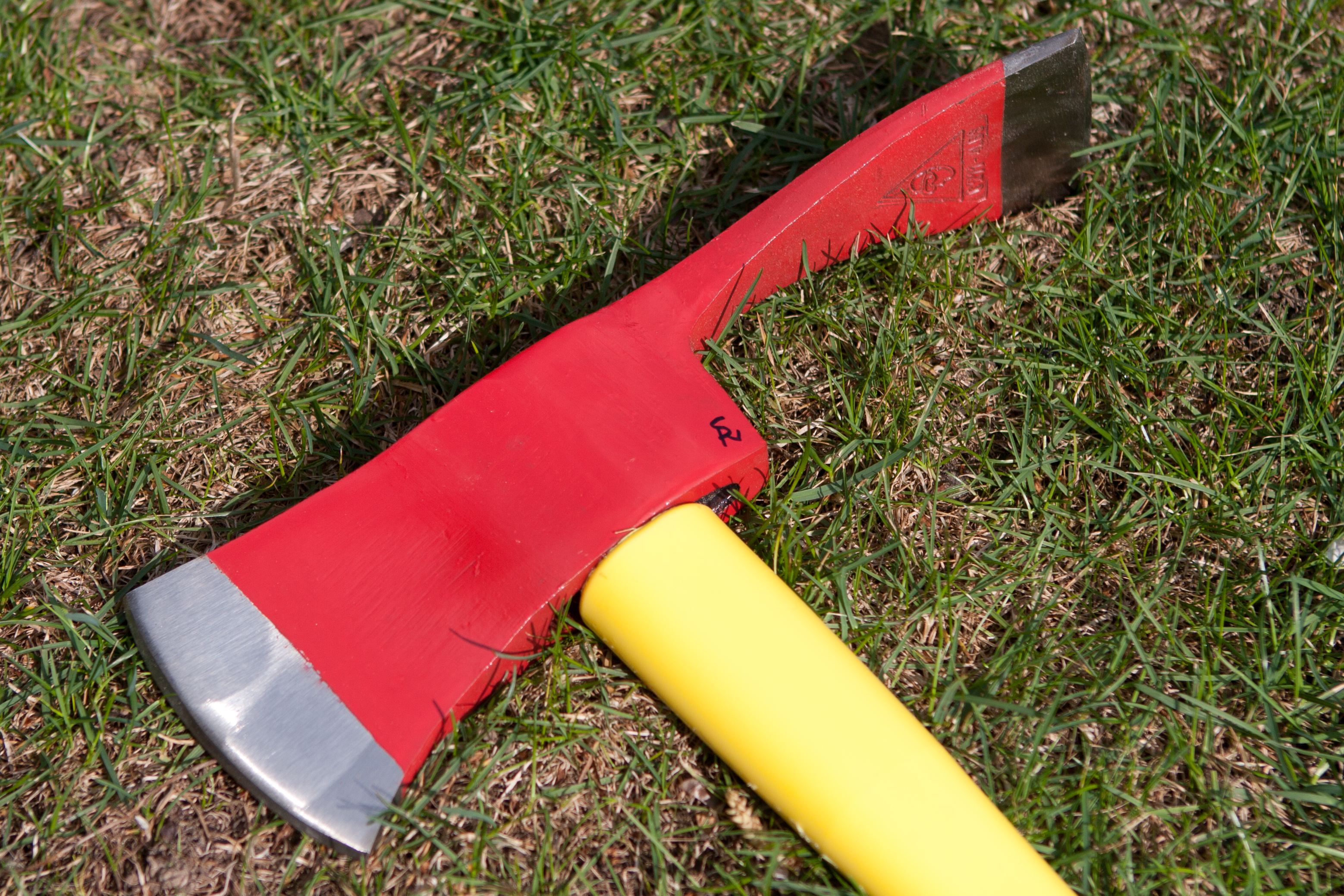 Head of a new Nupla PA375-PASG Pulaski Axe clearly showing both the axe and adz ends.